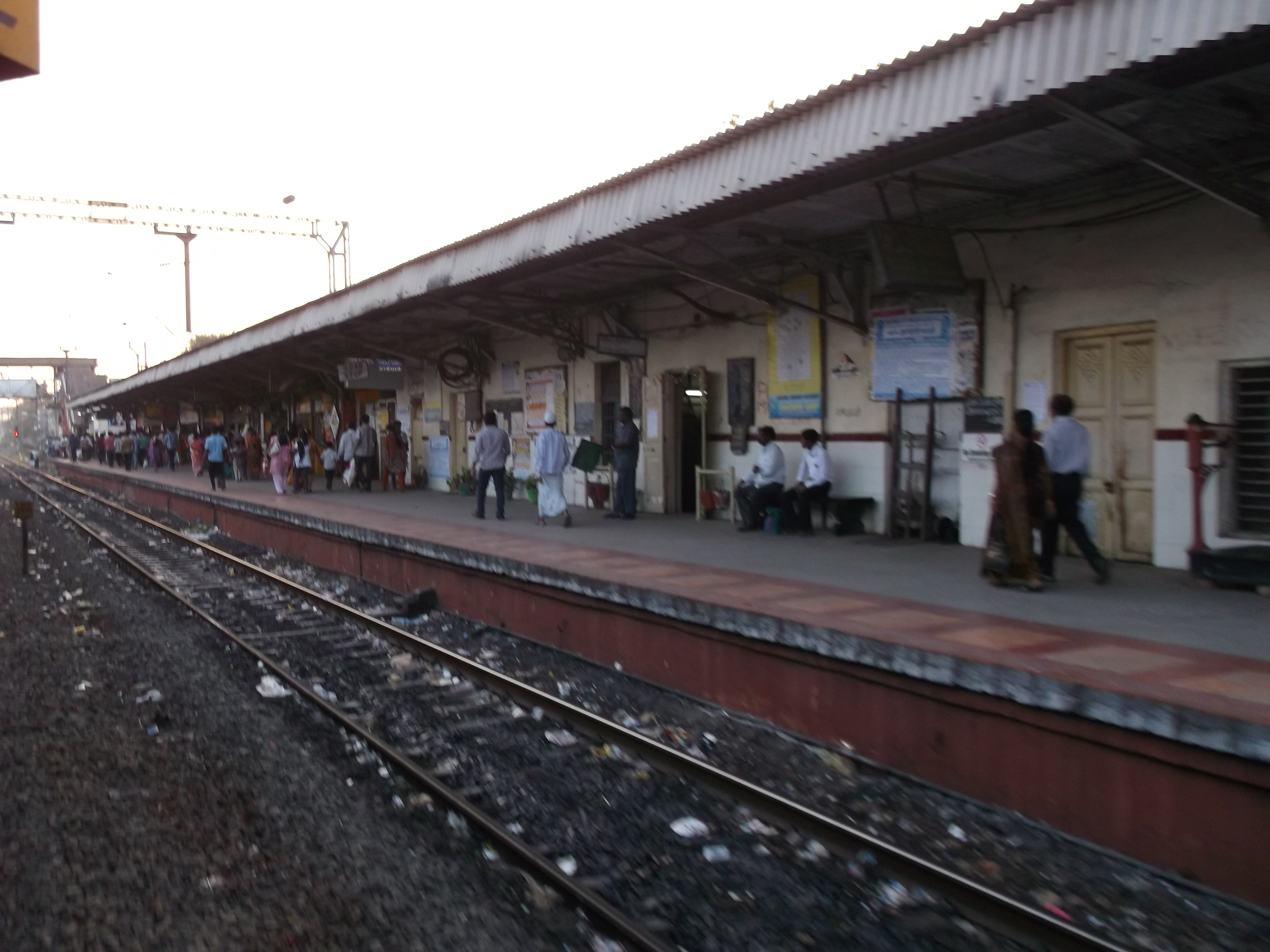 Pallavaram railway station, View 1, taken on 27-Jan-2013 at 6:00 pm.